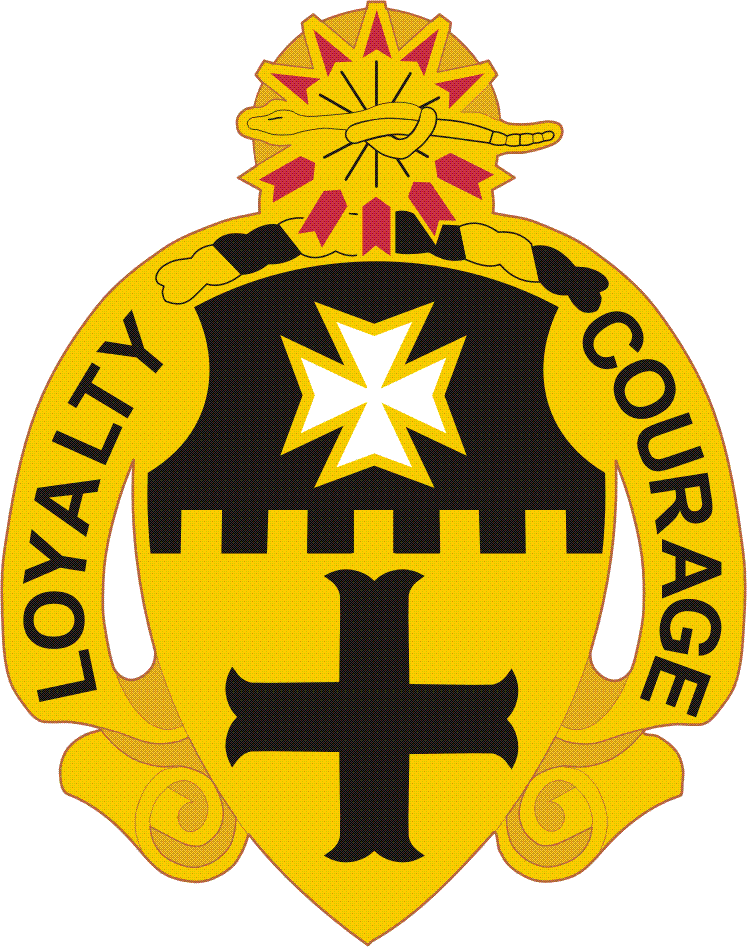 5th Cavalry Regiment Distinctive Unit Insignia